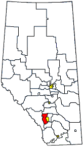 Map of Foothills-Rockyview a provincial electoral district in Alberta under 2004 boundaries